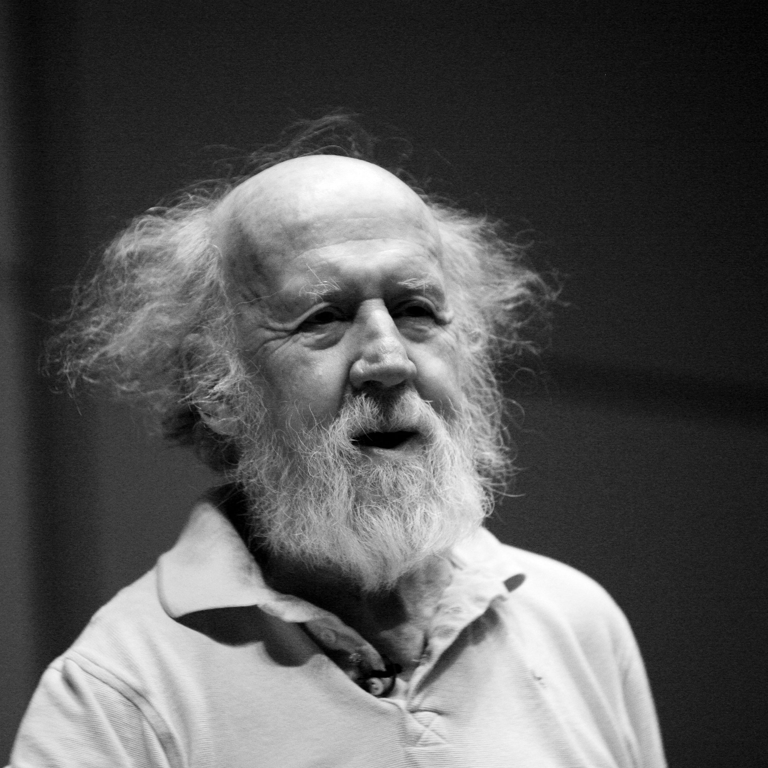 Hubert Reeves performing in Mozart et les Étoiles in Lausanne. Photograph made possible by the kind authorisation of Art-en-Ciel